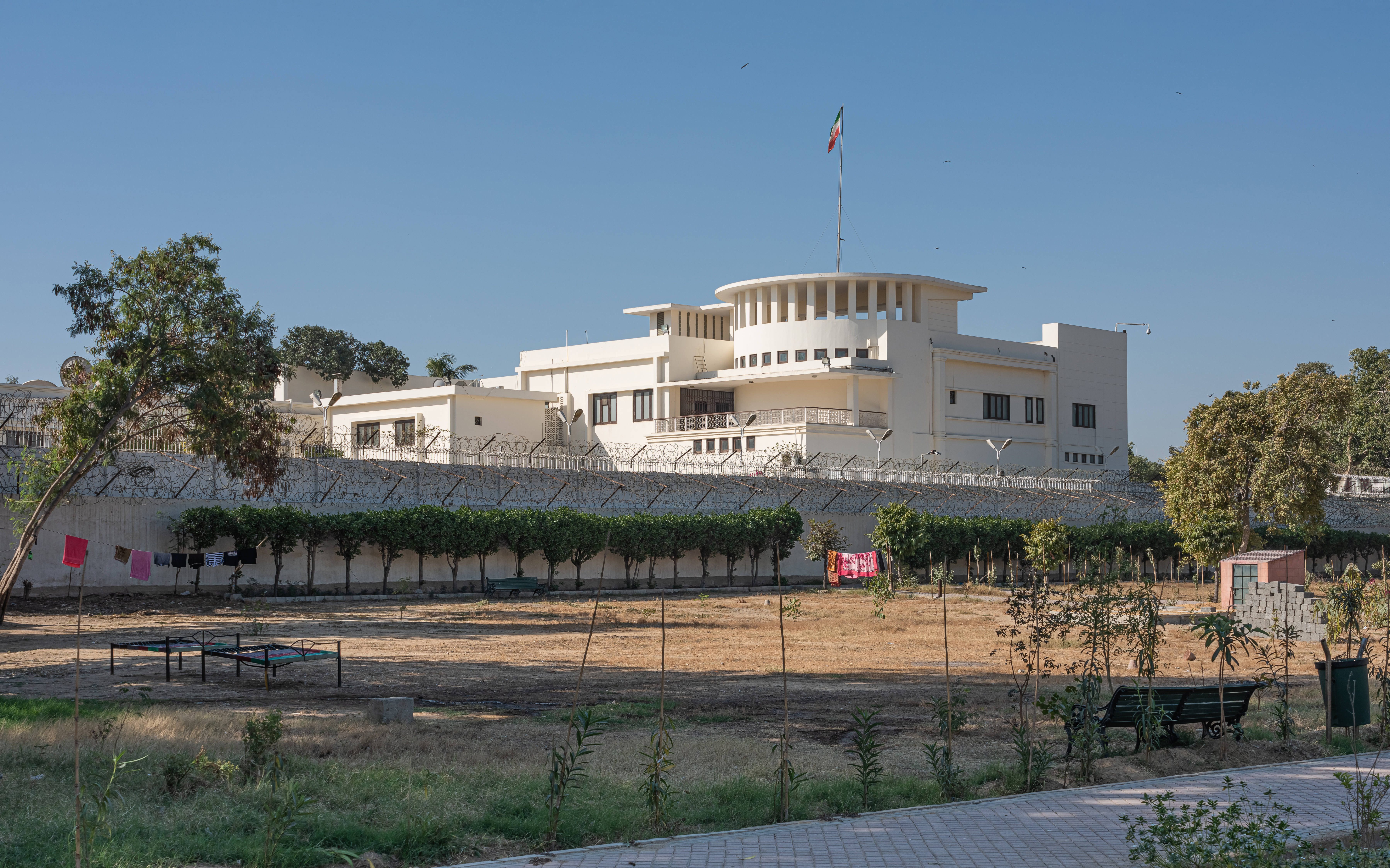 Clifton Garden and the Iranian Consulate General in Karachi, Pakistan